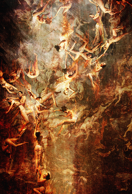 Adaptation of Rubens' Fall of the Damned